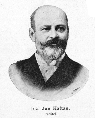 Portrait of Jan Kaftan (1841-1909), Czech railway engineer and politician. Cropped from a gallery of directors and commissioners of Zemská Banka království Českého (State Bank of the Czech Kingdom); out of the 17 pictures on that page, 15 were taken by Jan Nepomuk Langhans (1851-1928) and one each by Moritz Adler (1849-1920) and Moritz Ludwig Winter (1824-1899) [1] but it is not clear who took this particular one. The photo is also watermarked by printmaker Jan Vilím (1856-1923)